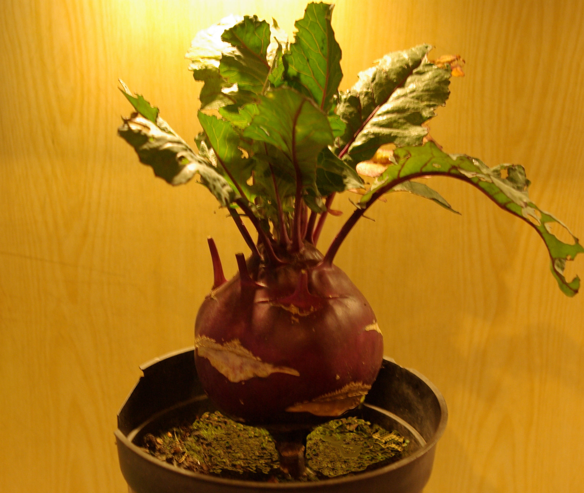 A kohlrabi plant growing in a flower pot.